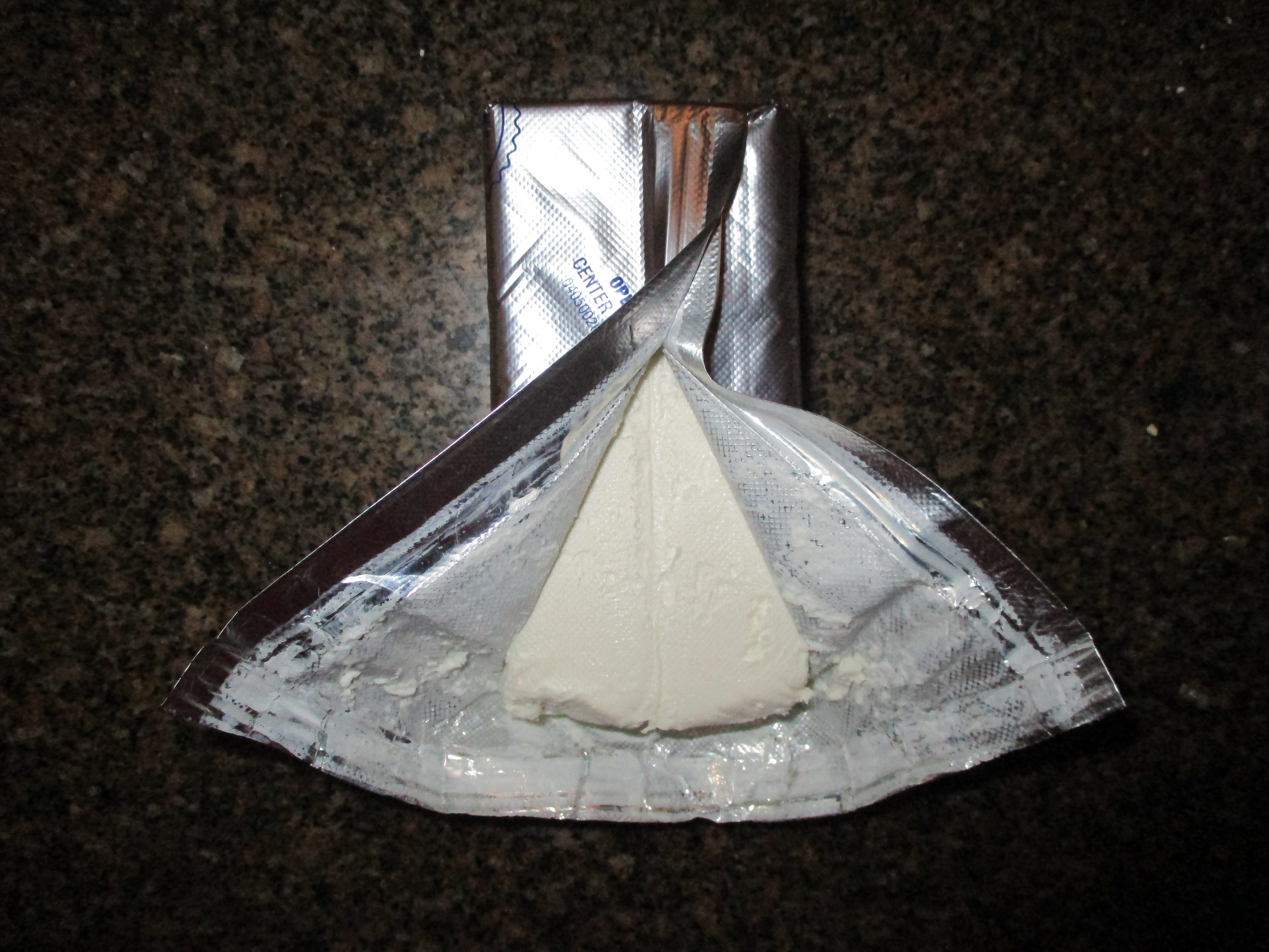 A newly opened brick